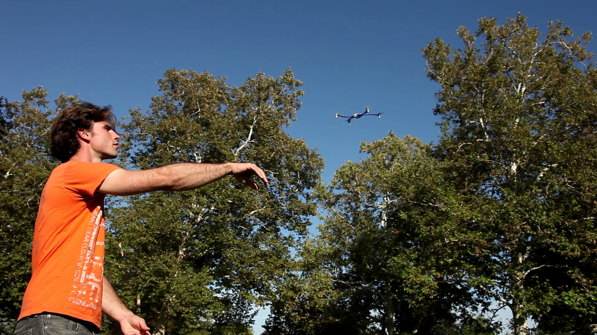 The Nixie creator Christoph Kohstall demonstrates the drone prototype in action (2014).